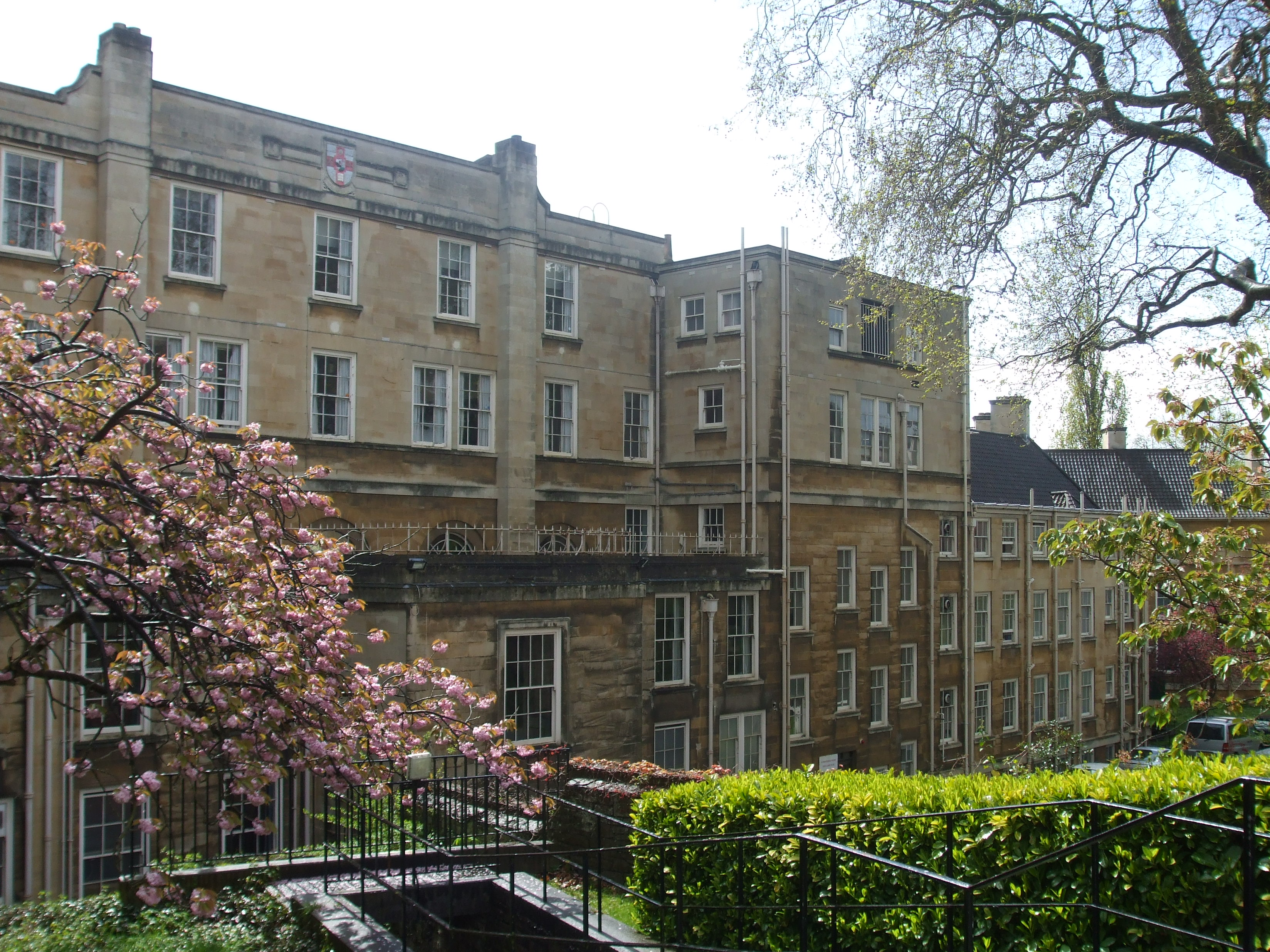 Manor Hall, University of Bristol